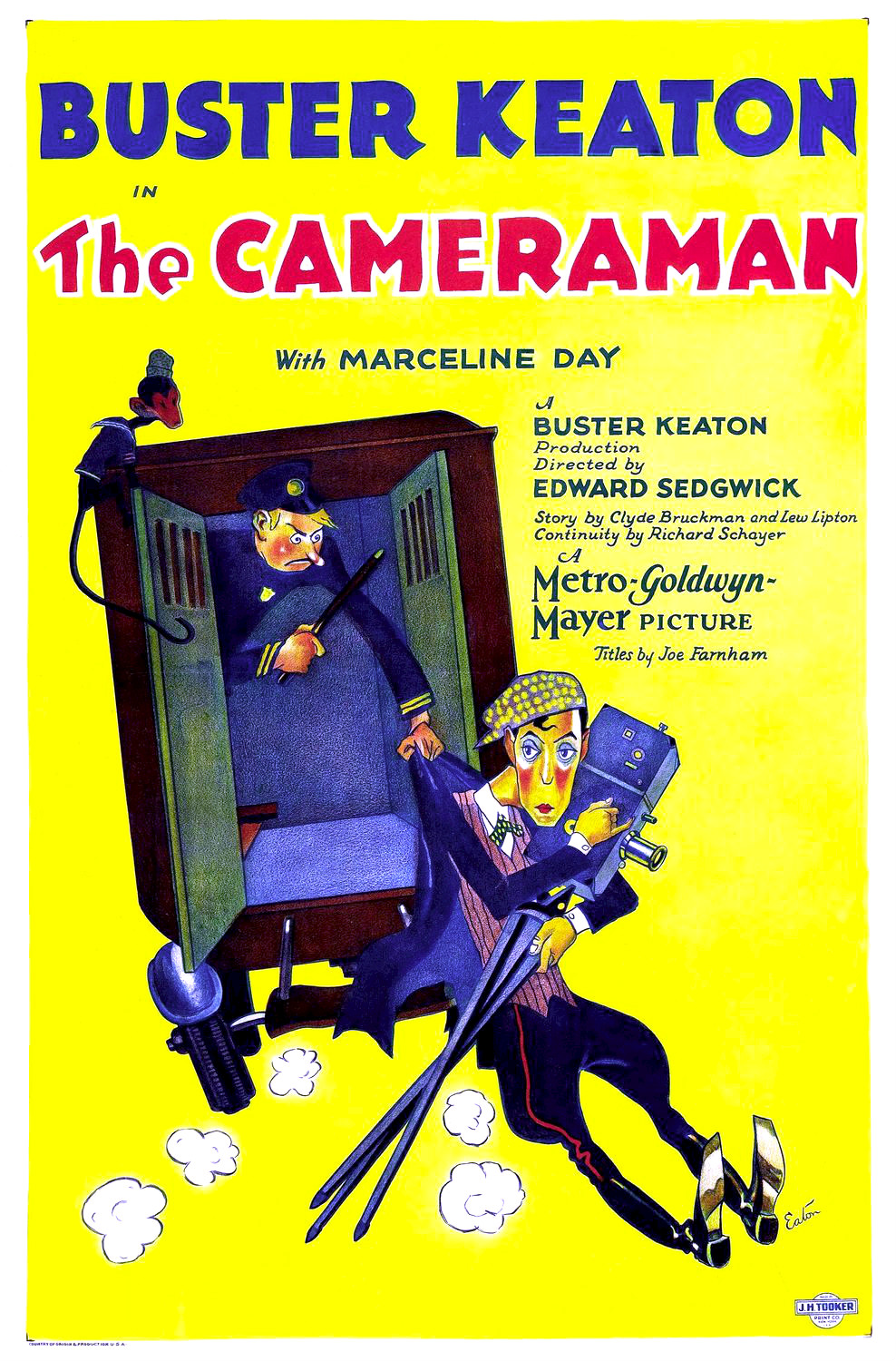 Poster for the 1928 film The Cameraman. The item has no copyright markings on it as can be seen in the links above. At lower right is a logo for the Tooker Litho Company--they printed the poster. At lower left is Country of origin & production USA.